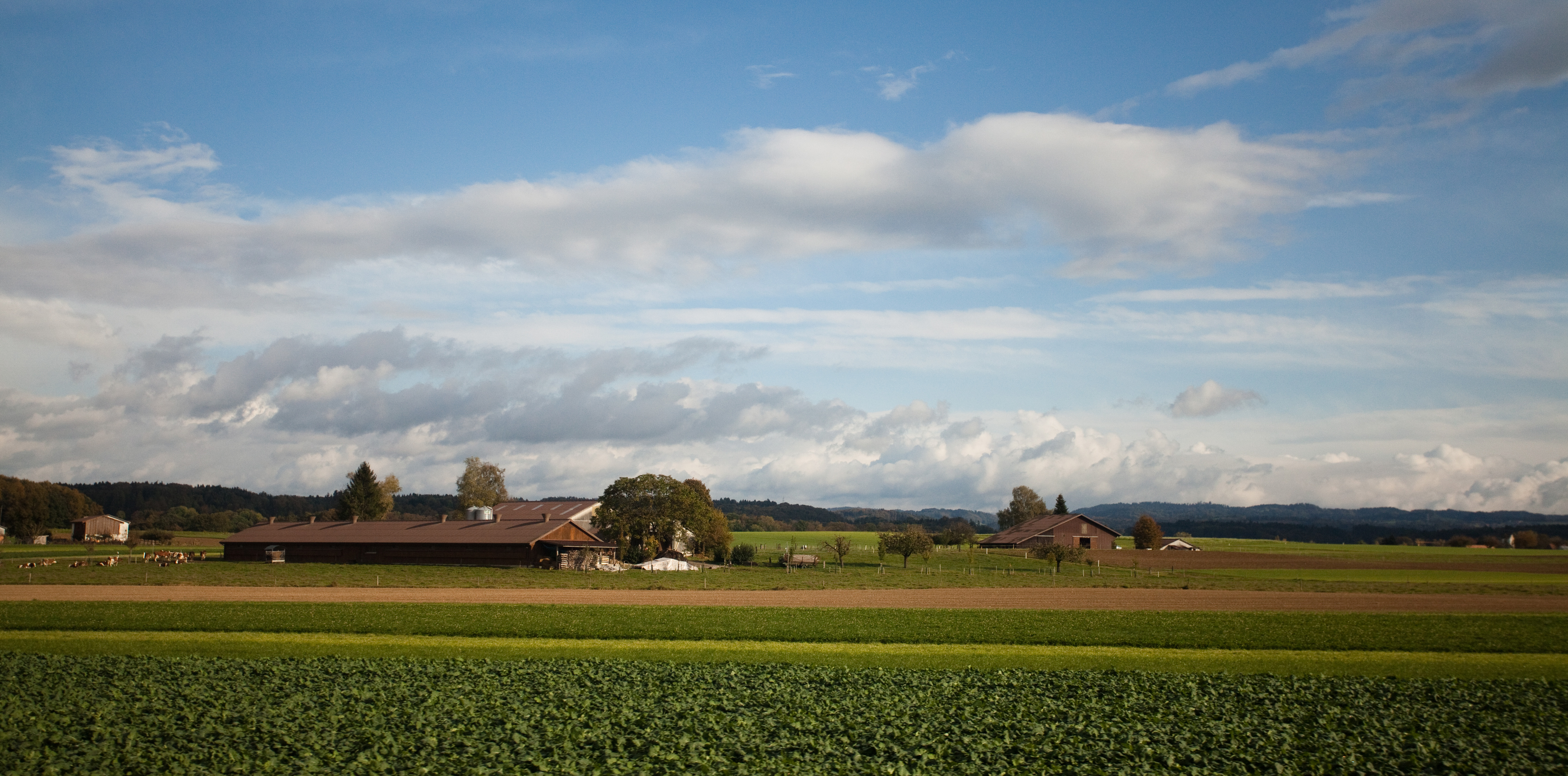 View from a train toward Halten, SO, Switzerland